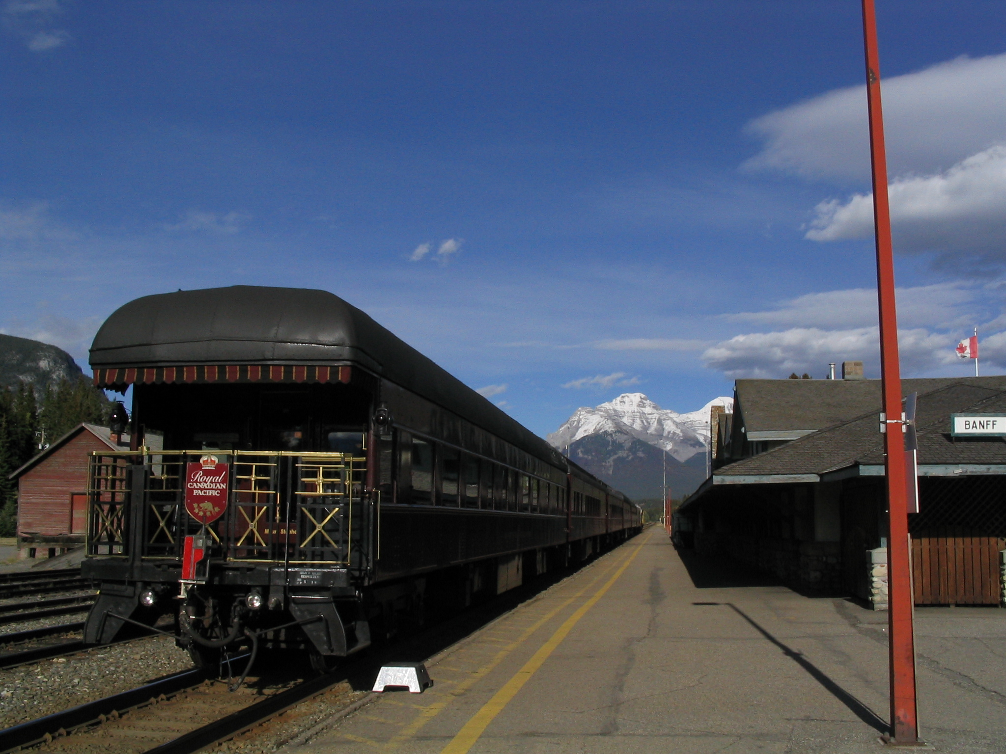 Banff Station and the beautiful train. Royal Canadian Pacific